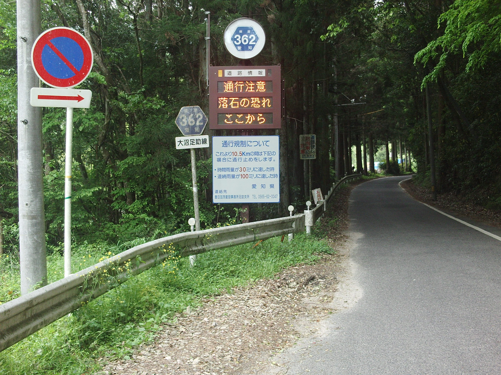 Aichi prefectural road No.362 in Higashikawabatacho, Toyota, Aichi.